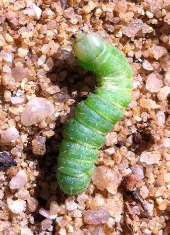 Lithophane ornitopus caterpillar